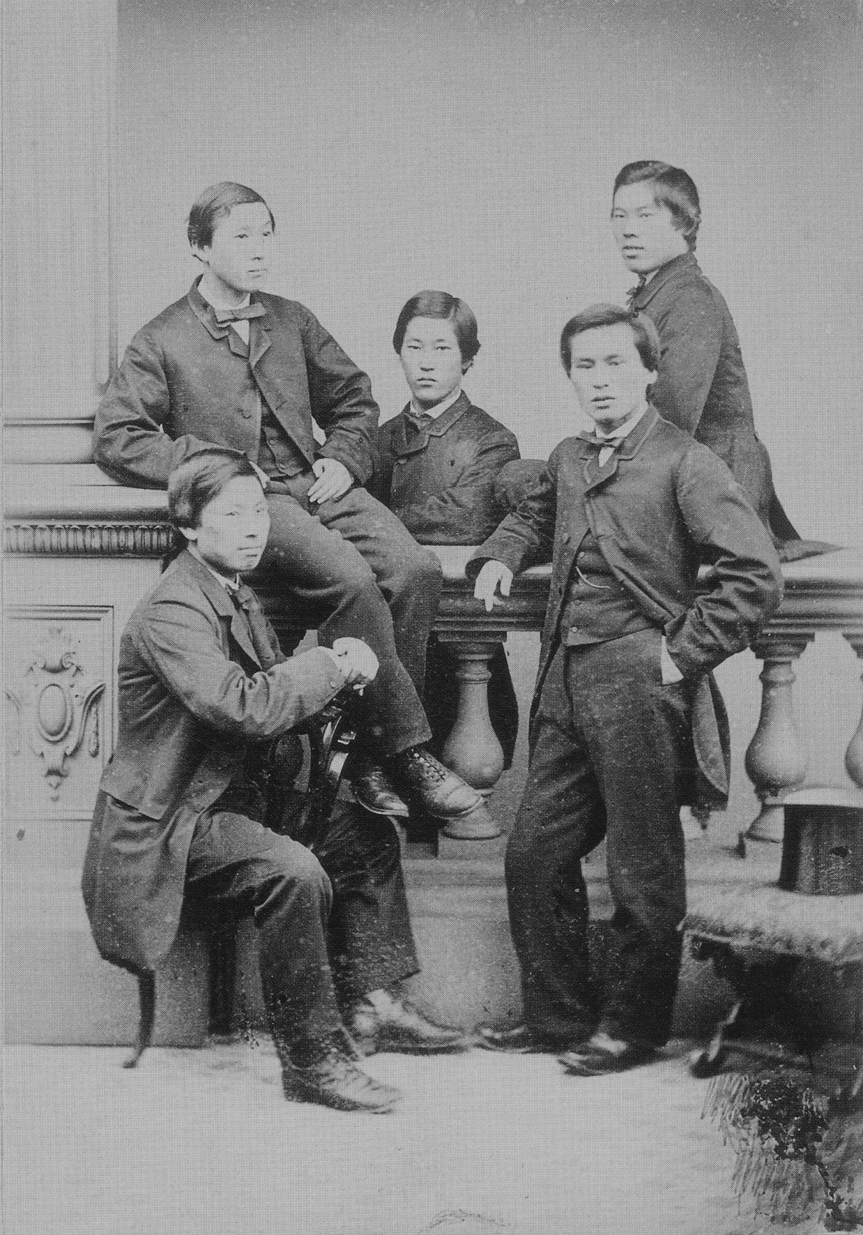 Five of Chôshû at London